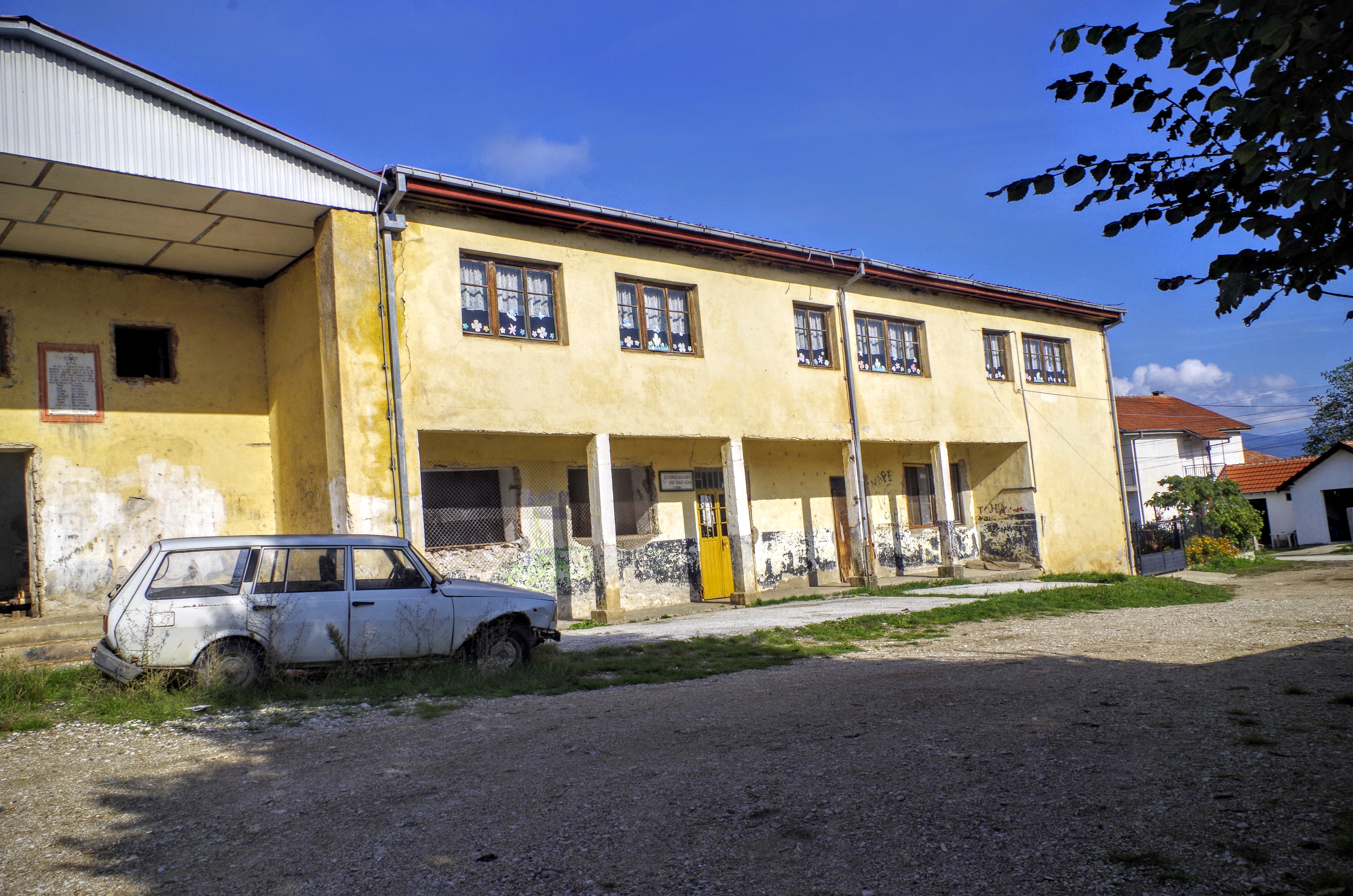 View of the primary school in the village Stenje